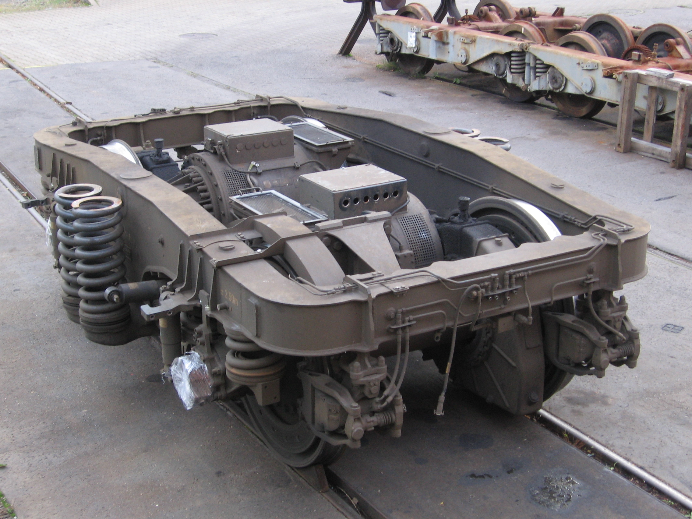 Bogie of Class 380 ČD locomotive